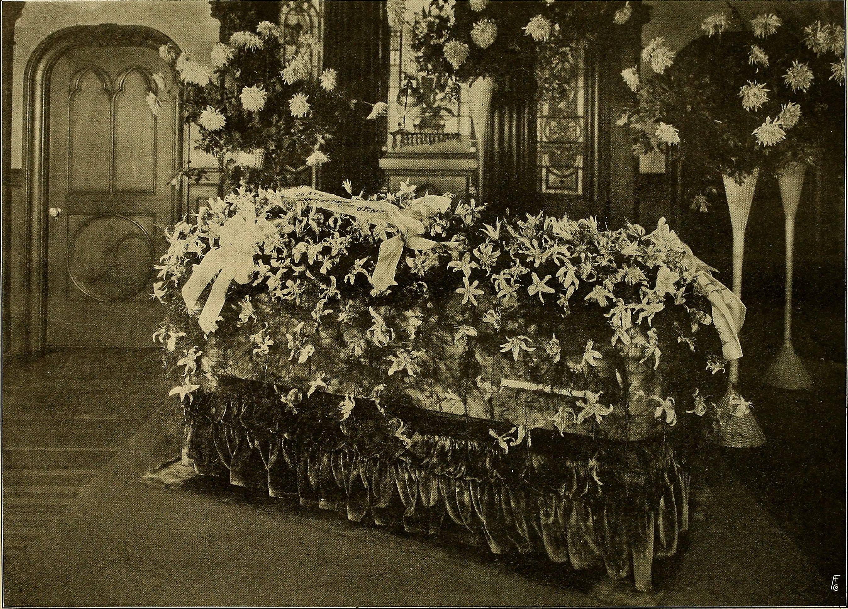 Casket cover for the funeral of Virginia Rappe Title: The American florist : a weekly journal for the trade Year: 1885 (1880s) Authors: American Florists Company Subjects: Floriculture; Florists Publisher: Chicago : American Florist Company Text Appearing Before Image: 1921. The American Florist. 535 Text Appearing After Image: '